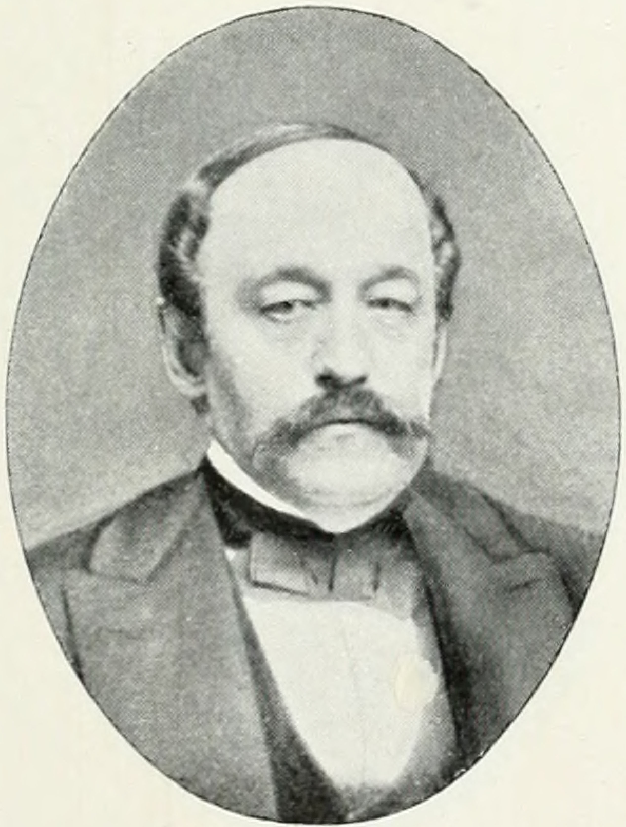 Fredrik Alexander Funck (1816-1874), Swedish politican